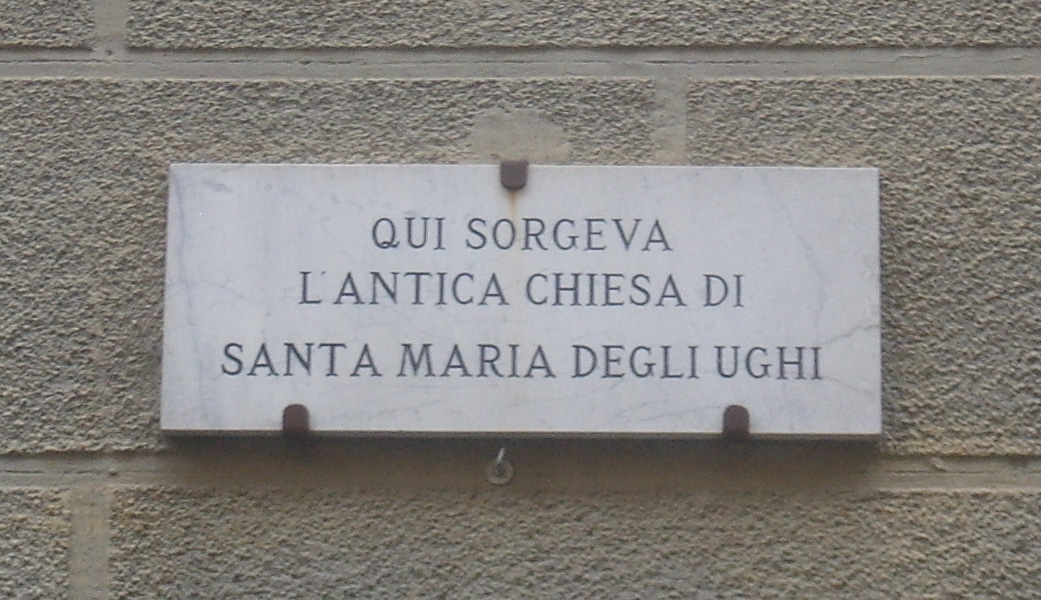 Santa Maria degli Ughi plaque in Florence, Italy